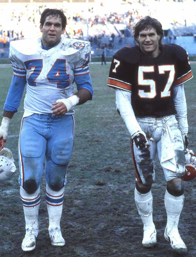 Bruce Matthews with his brother Clay Matthews in 1984. Photo taken at a game between the Cleveland Browns and the Houston Oilers.